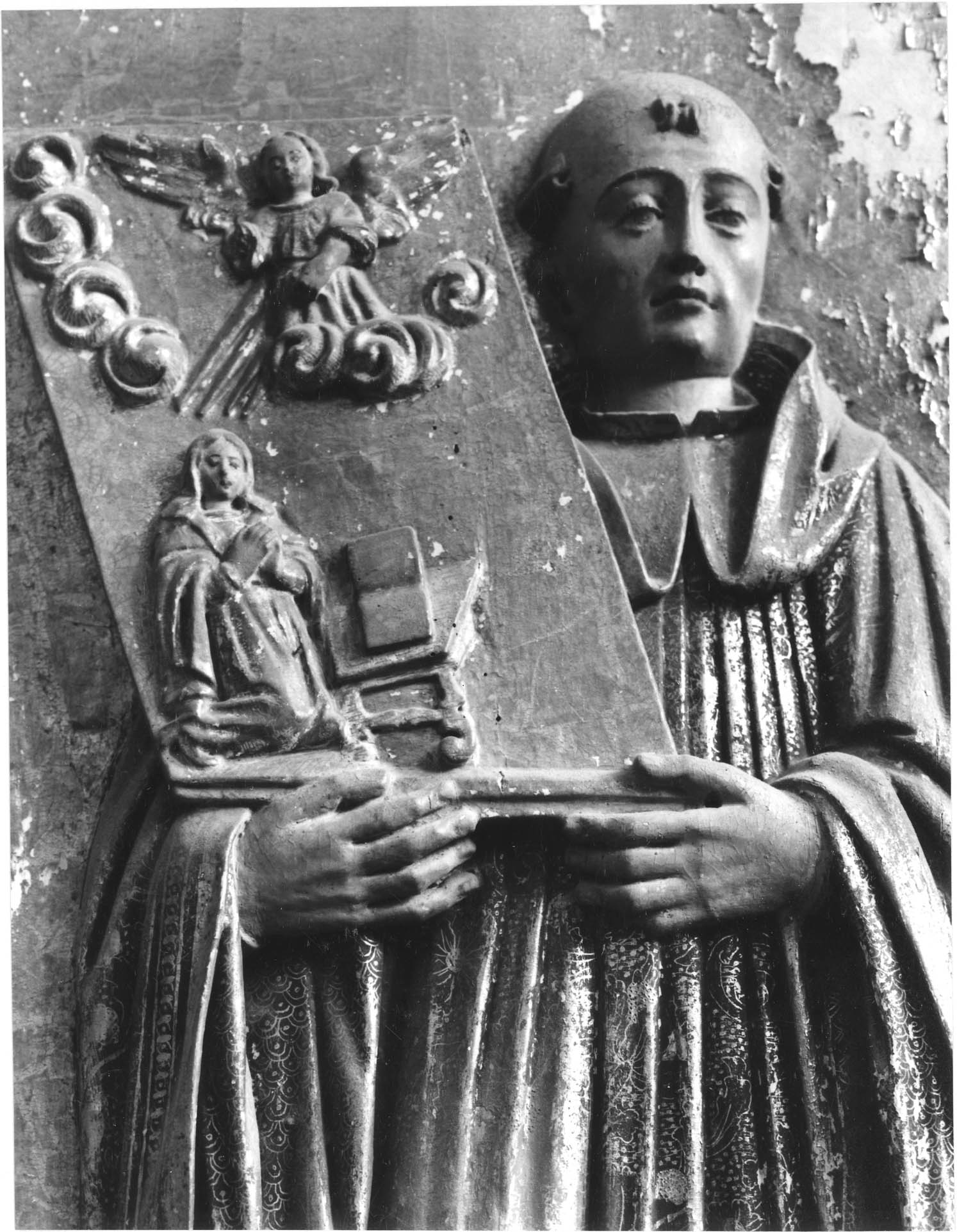 Detail of choirstalls (17th-18th century) of Tibães Monastery near Braga, Portugal. Photo by Robert Chester Smith (1912-1975)